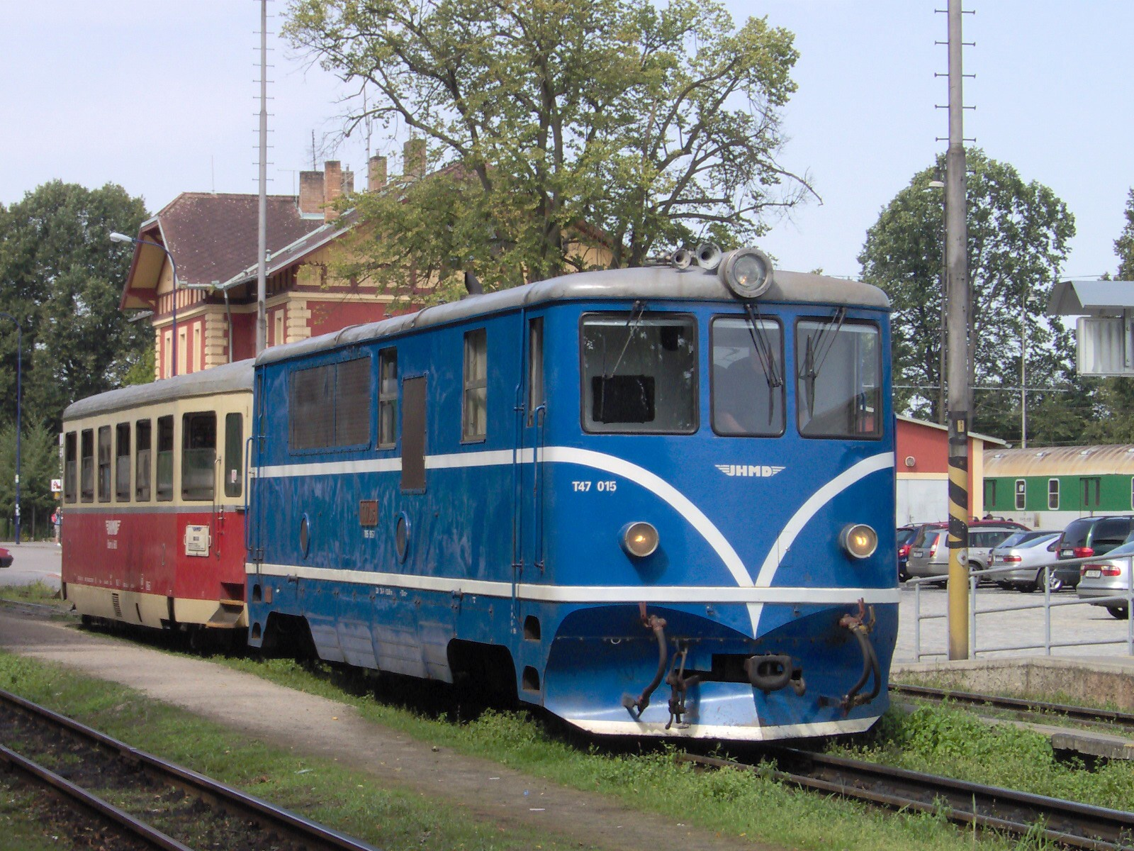 Narrow gauge diesel locomotive 705.915 (T 47.015), Jindřichův Hradec, Czech Republic